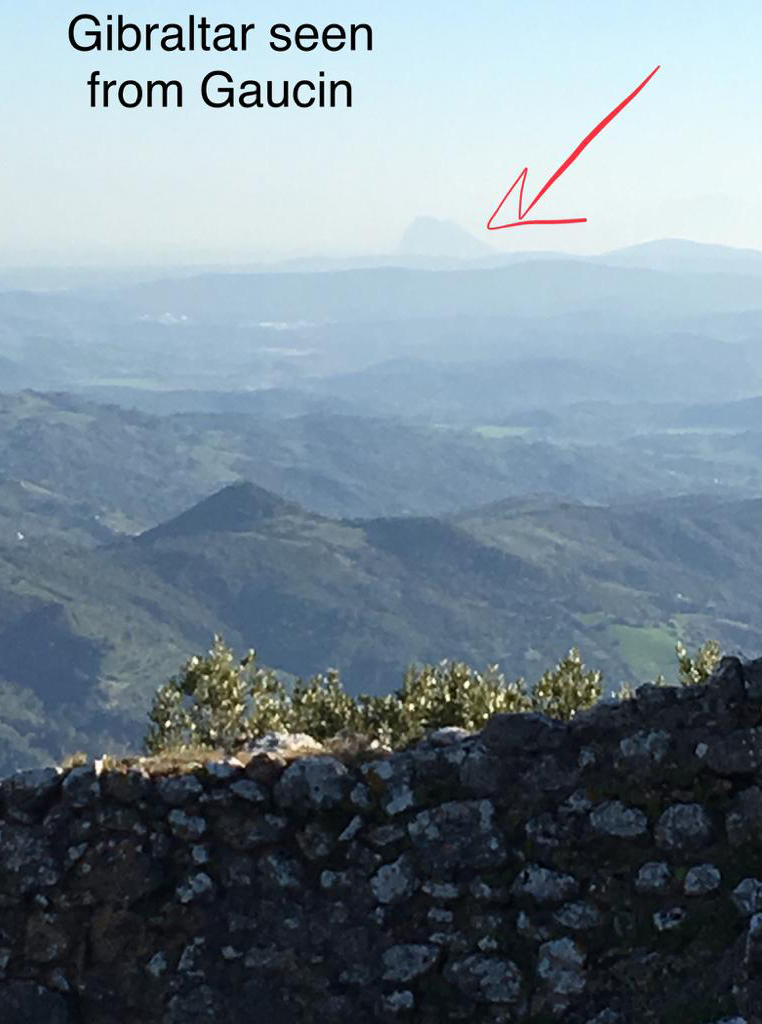 Gaucin region